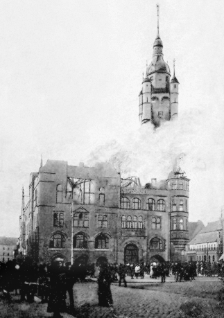 Dessau, the town hall after burning on april 2, 1910